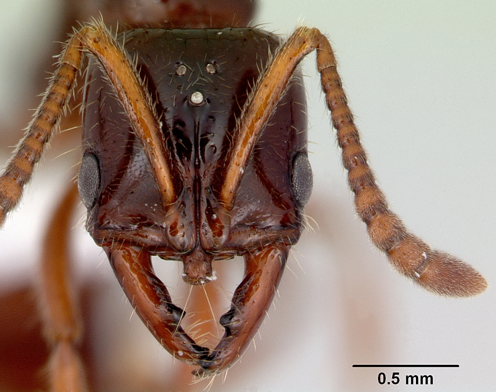 Head view of ant Myopias chapmani specimen casent0172094.